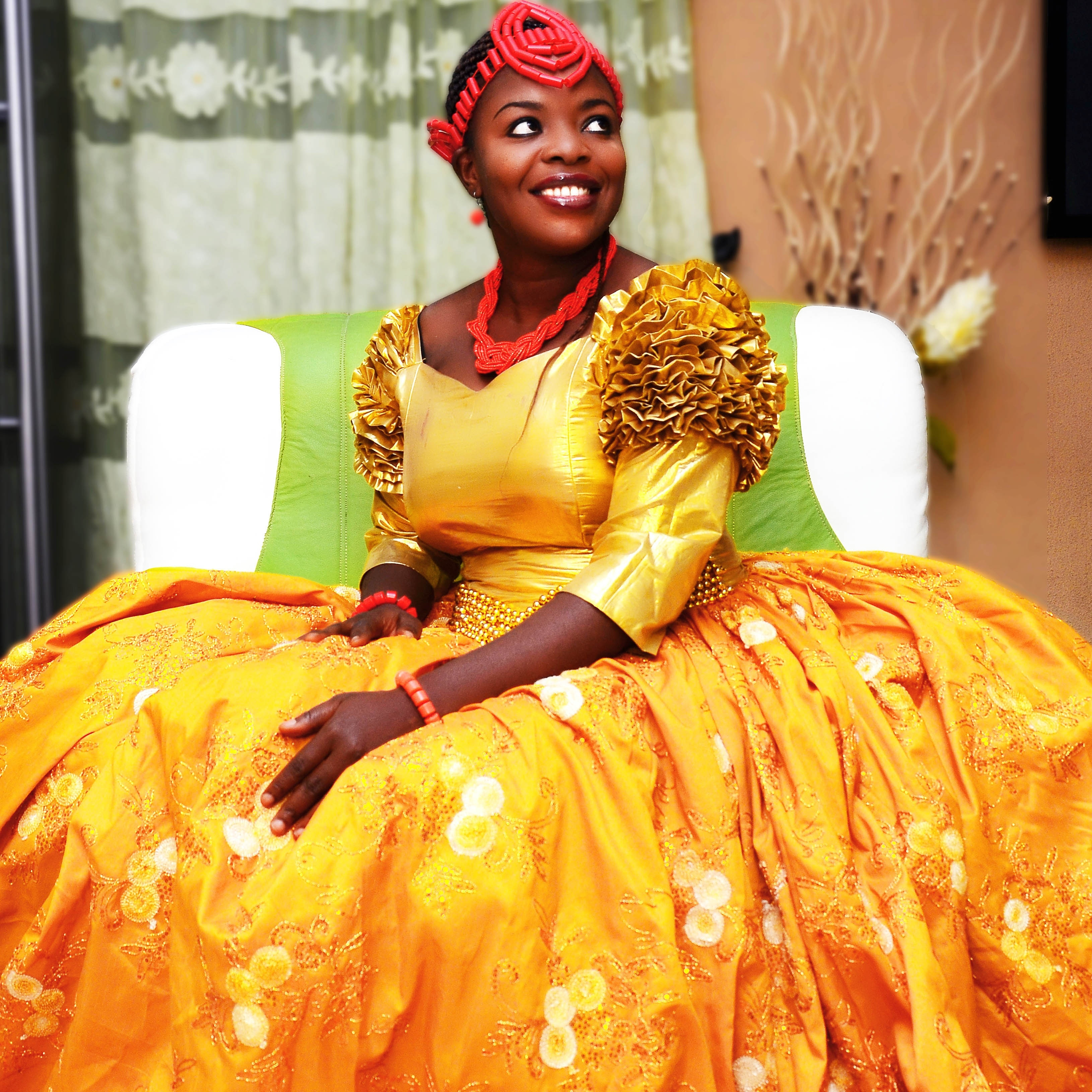 Ibibio Traditional Attire of Akwa Ibom State, Nigeria This is an image of Cultural Fashion or Adornment from Nigeria